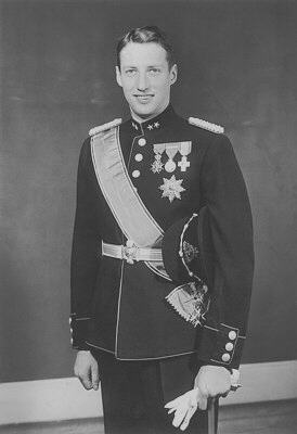 Crown Prince Harald of Norway